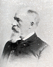 Michael Griffin, US Representative from Wisconsin